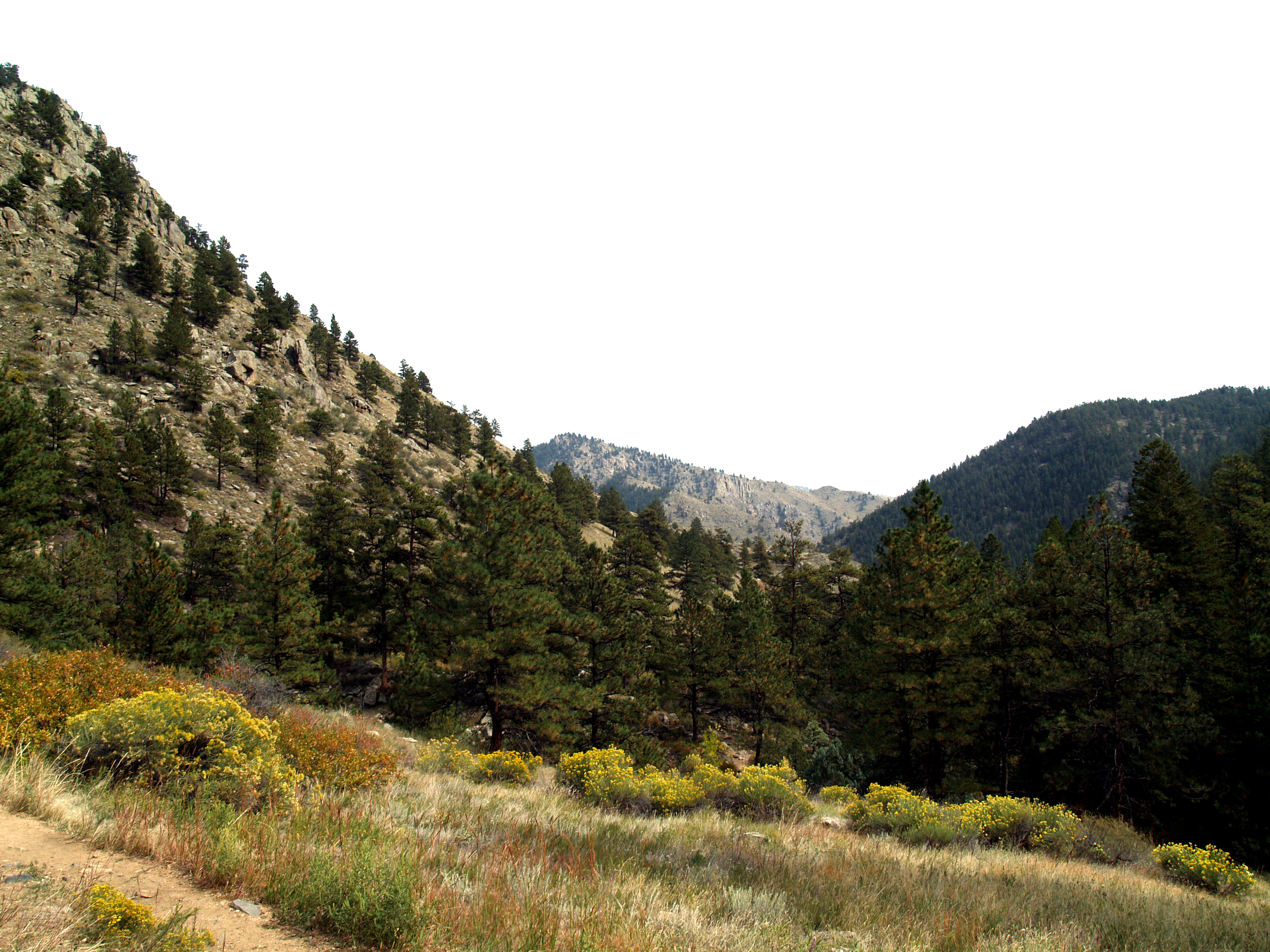 Poudre Canyon, Greyrock trail near Ft. Collins